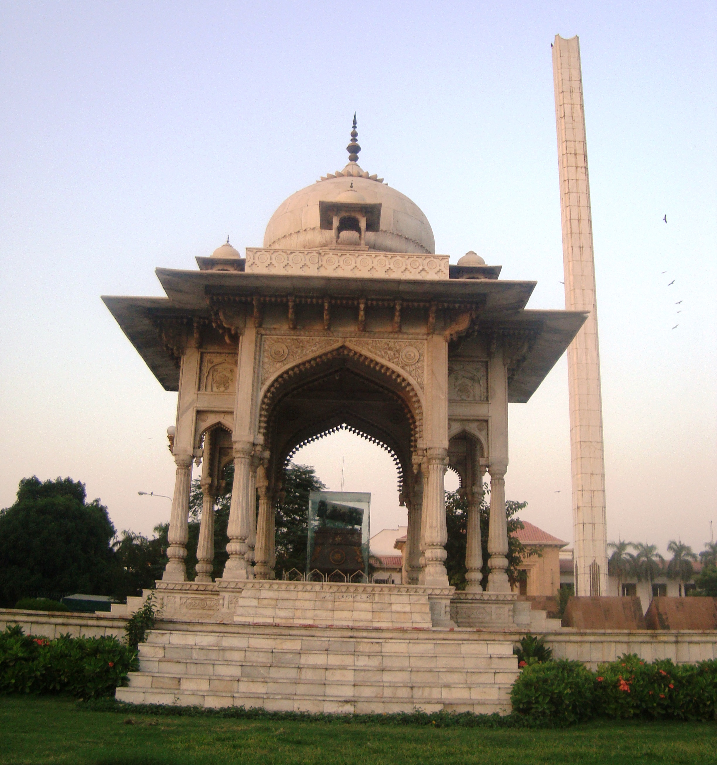 Islamic Summit Minar This is a photo of a monument in Pakistan identified as the PB-93